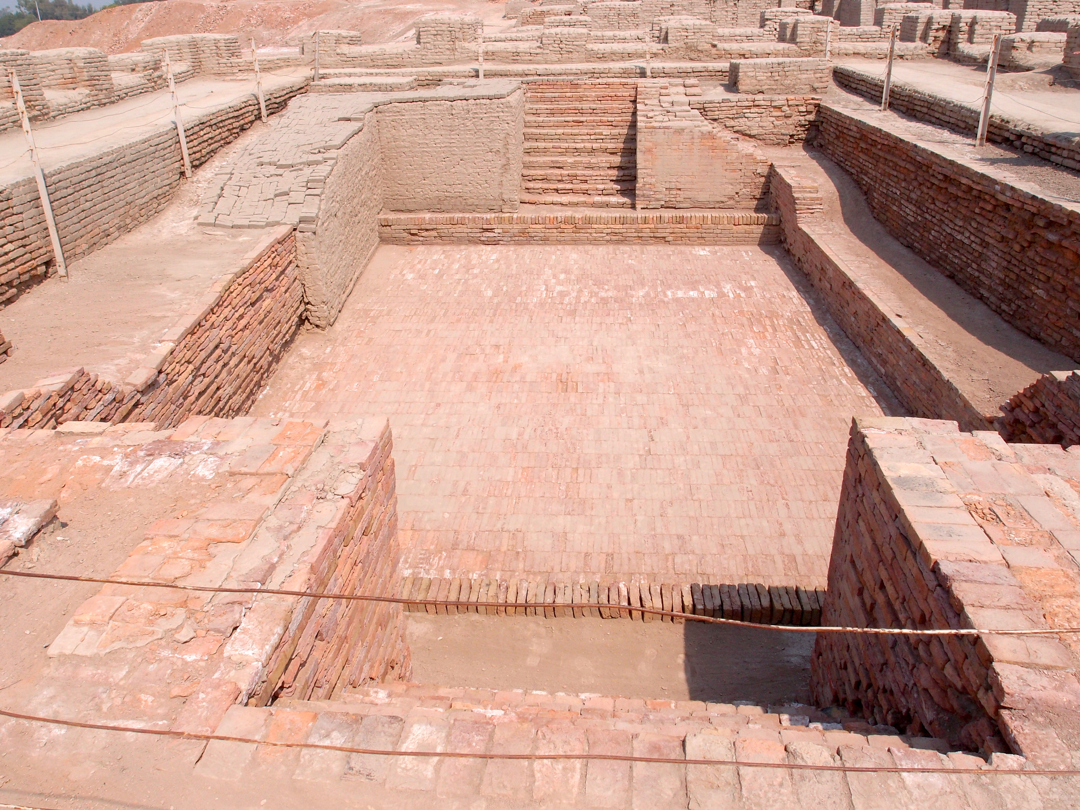 The Great Bath. A 2.4m deep, 12m long, and 7m wide pool known as "The Great Bath" is located at the centre of the Citadel, is made of fine baked waterproof mud bricks and a thick layer of bitumen (natural tar – presumably to keep water from seeping through the walls), which indicates that it was used for holding water. Many scholars have suggested that this huge deep bath could have been a place for ritual bathing or religious ceremonies. It is the earliest public water tank of the ancient world. Adjacent to it are a well that was used to supply water to the bath.